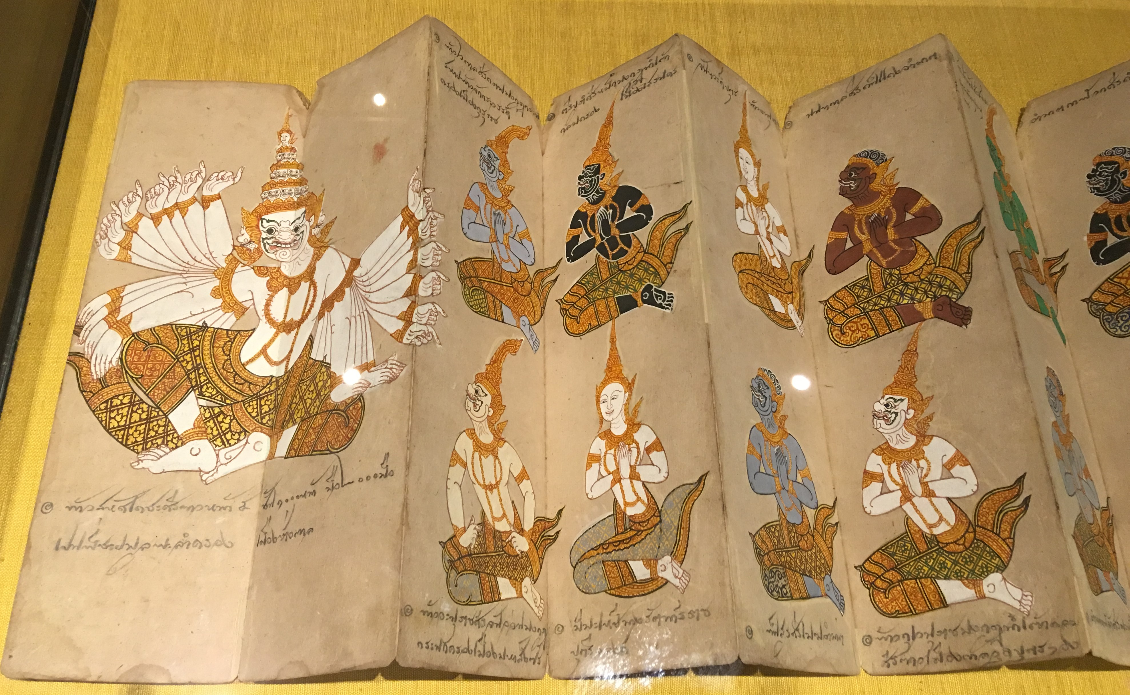 Thai manuscript from before the 19th century writing system, collection in the Jim Thompson House collections.